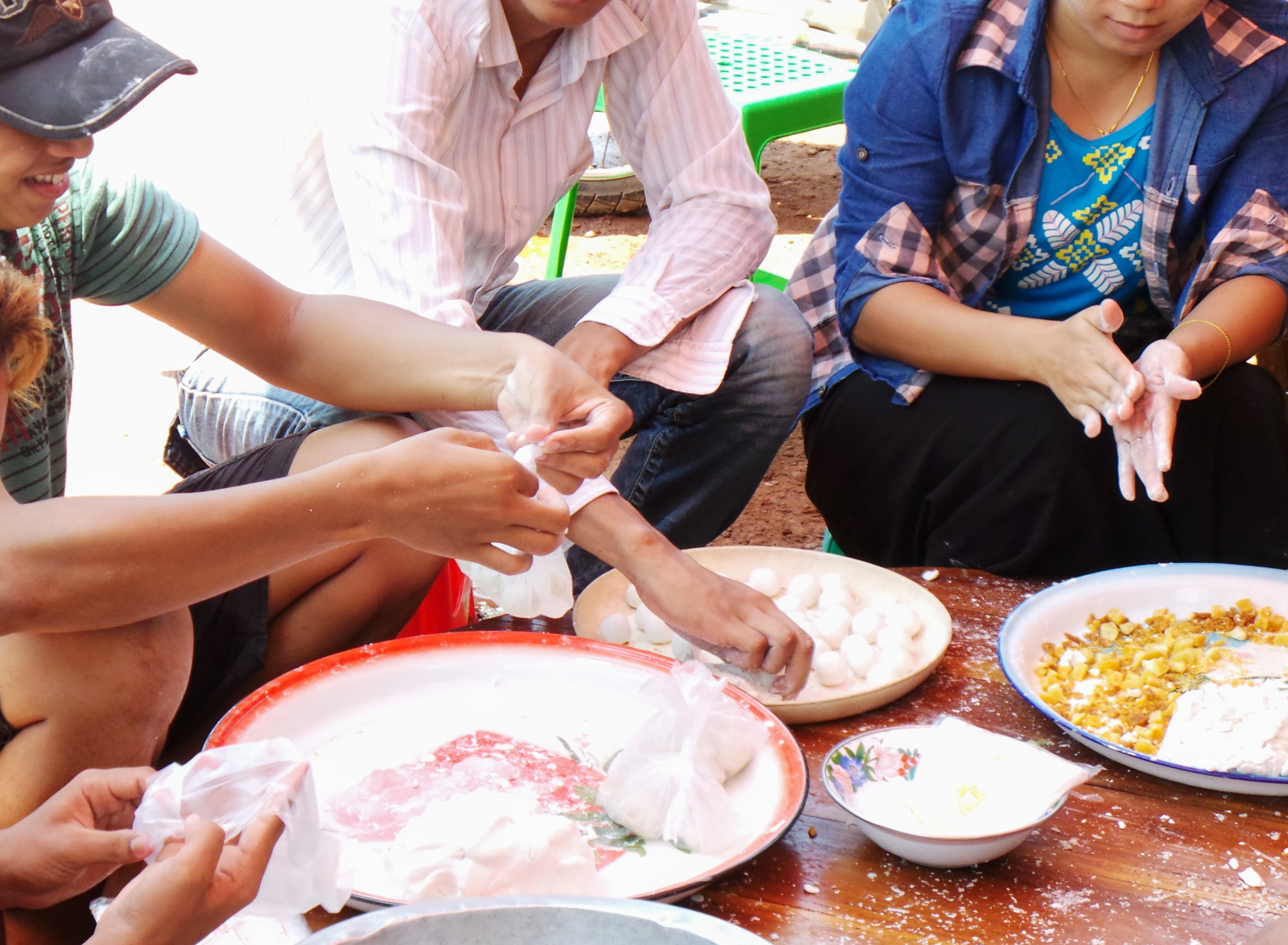 Making of Montlone yaypaw (Myanmar Floating Dumplings)